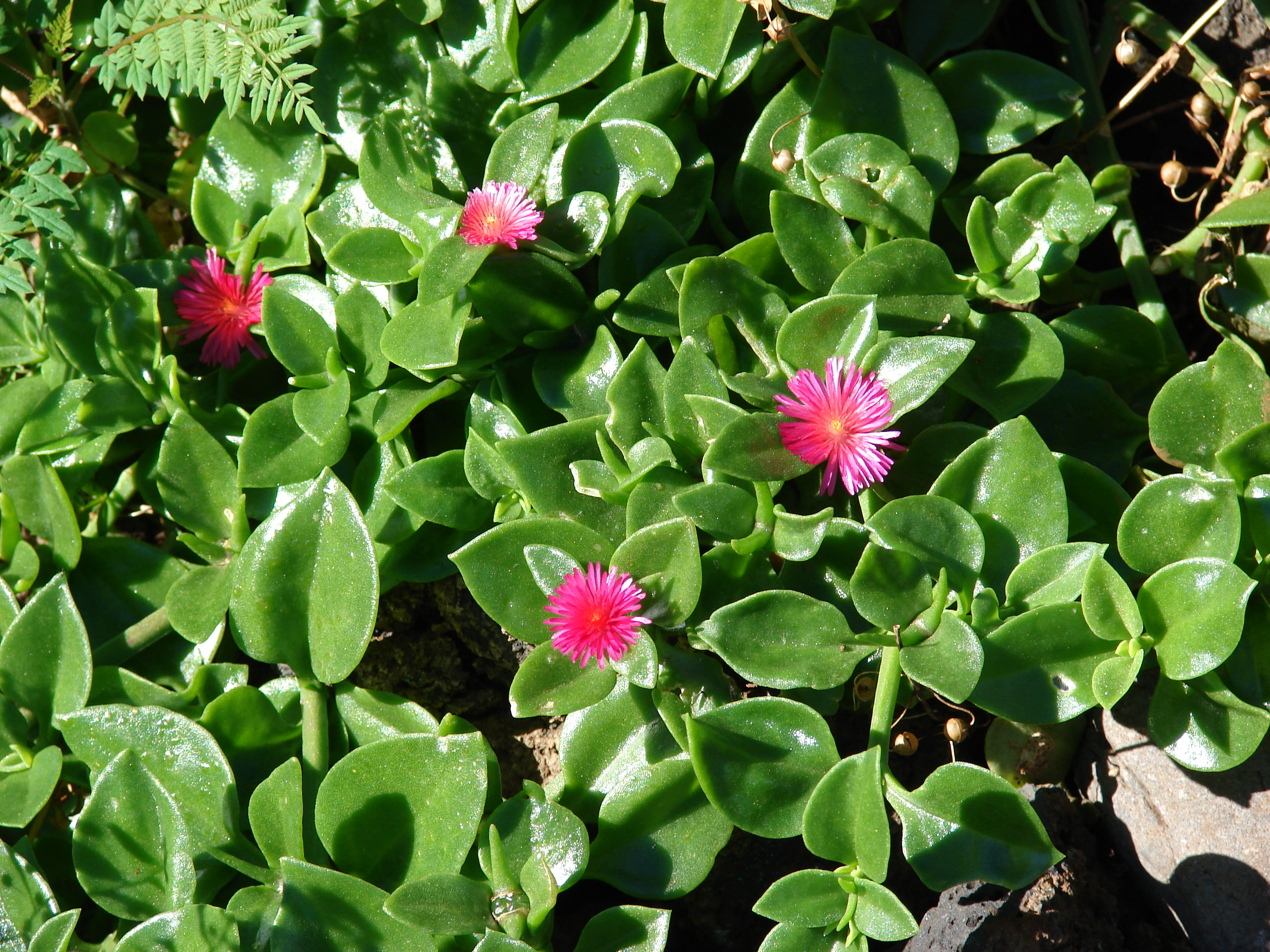 Aptenia cordifolia (leaves and flowers). Location: Maui, Makawao